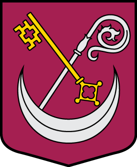 Coat of arms of Kokneses pagasts, Latvia